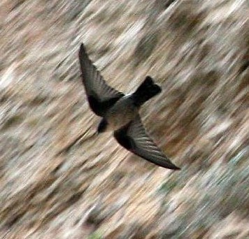 Ptyonoprogne rupestris in flight